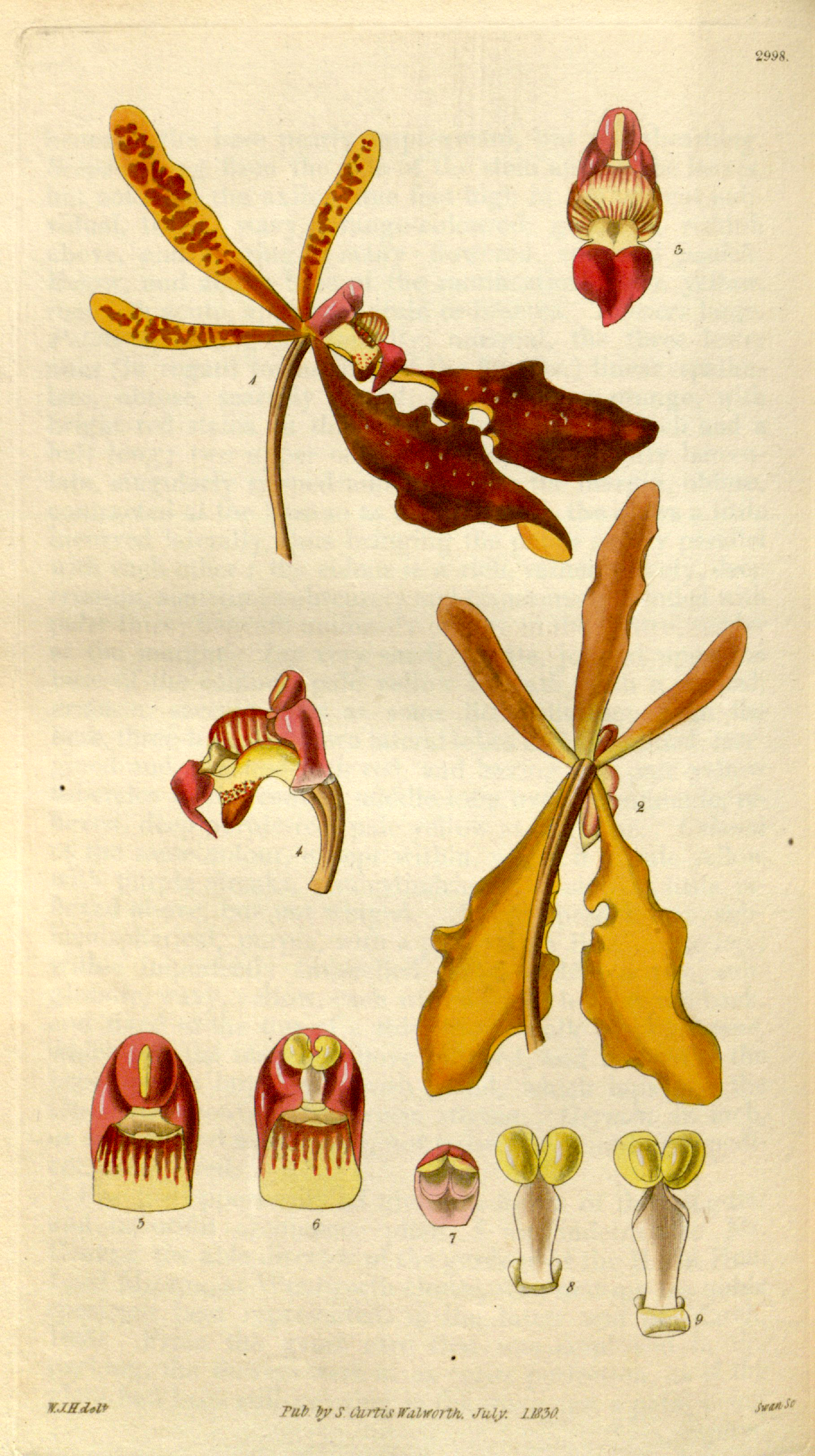 Illustration of Renanthera coccinea (details)